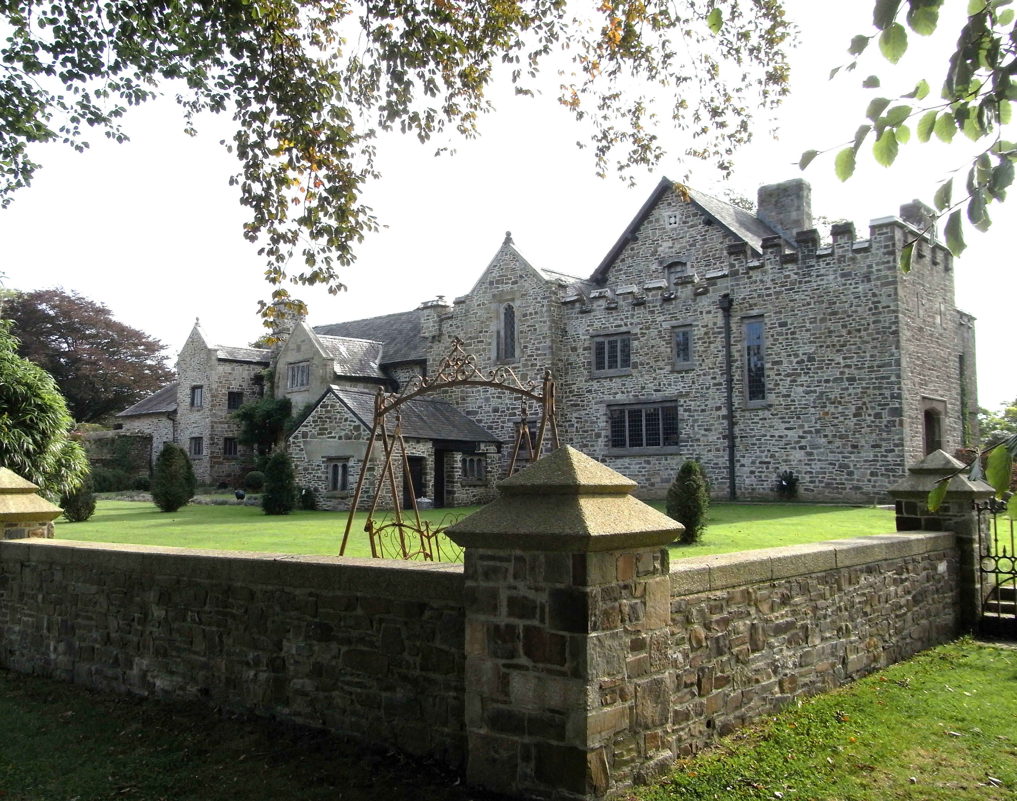 Stafford Barton in the parish of Dolton, Devon, entrance front. The picture shows the house after extensive repair and remodelling by the Doran family, owners in 2016